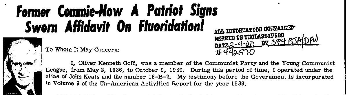 Kenneth Goff Fighting Communist Fluoridation